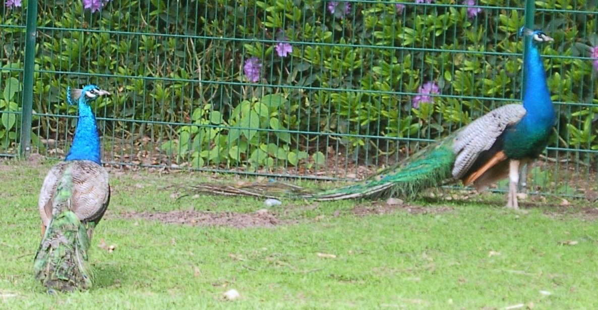 Pfauen im Hirschpark in Nienstedten. This is a photograph of an architectural monument. ,16979